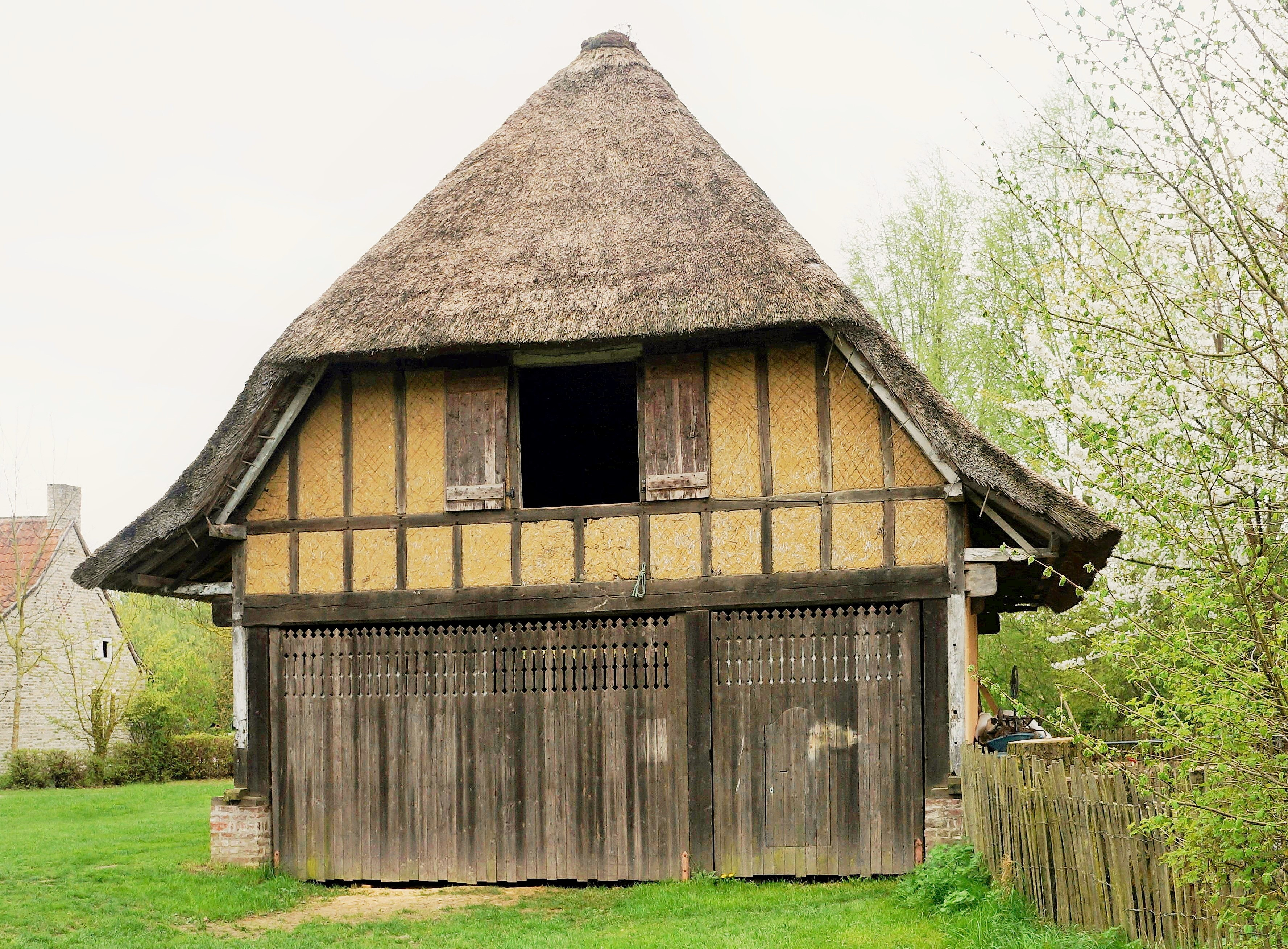 The charter of Meteren, dating from the seventeenth century, was the last part of a hosfee. An imposing and exceptional thatched roof with friezes cut to the Frisian composes the roof rising 6.40 meters. The framework is composed of a wall made of cob, composed on each side of four posts placed on the low pavement, resting on a wall brick guttereau. Villeneuve d'Ascq, Musée de Plein air, France